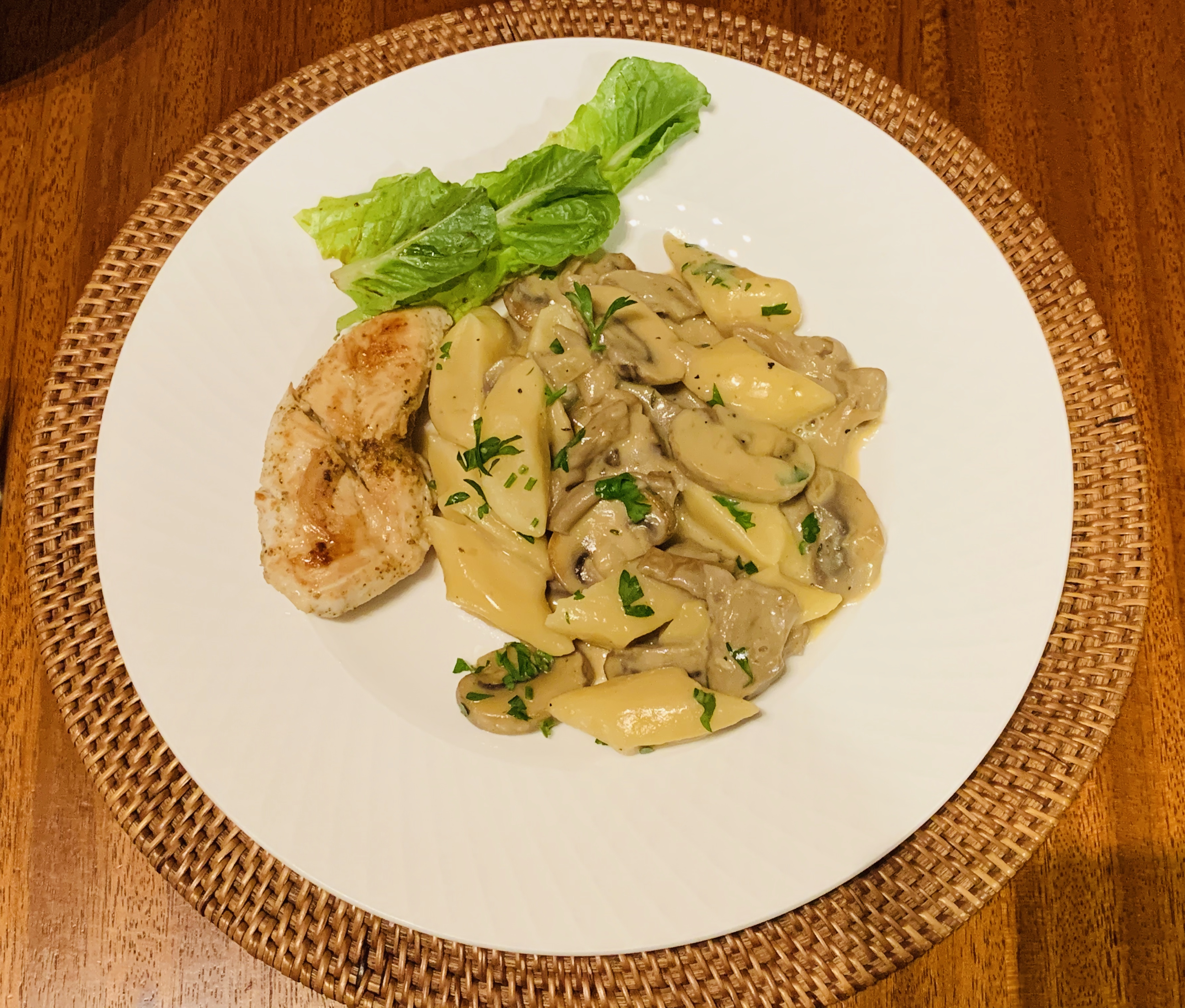 Kopytka in creamy mushroom sauce, Brisbane, 2020